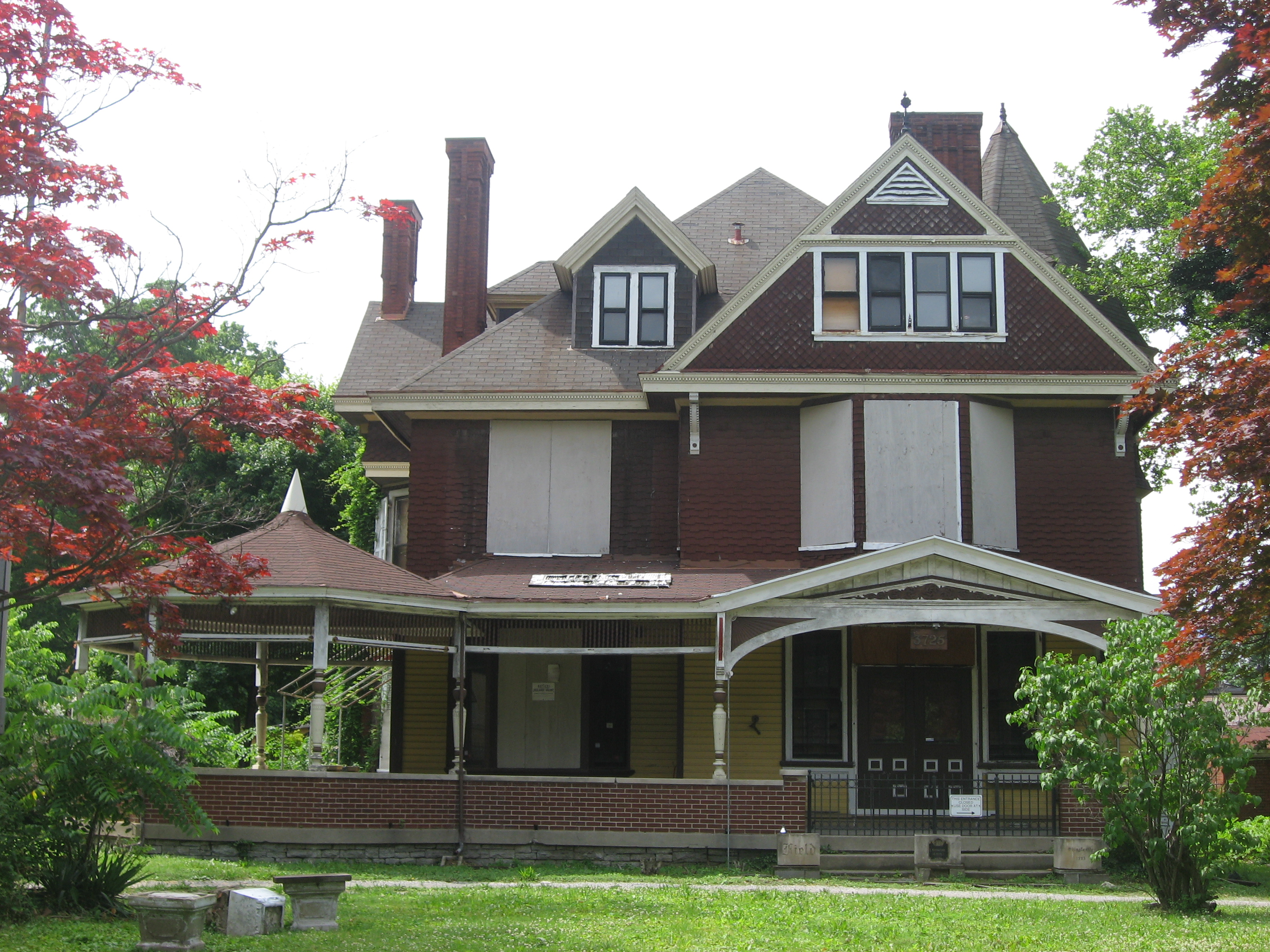 Front of the Walter Field House, located at 3725 Reading Road (U.S. Route 42) in Cincinnati, Ohio, United States. Built in 1884, it is listed on the National Register of Historic Places.